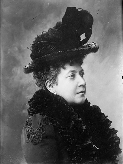 Princess Helena (1846-1923), Princess Christian of Schleswig-Holstein